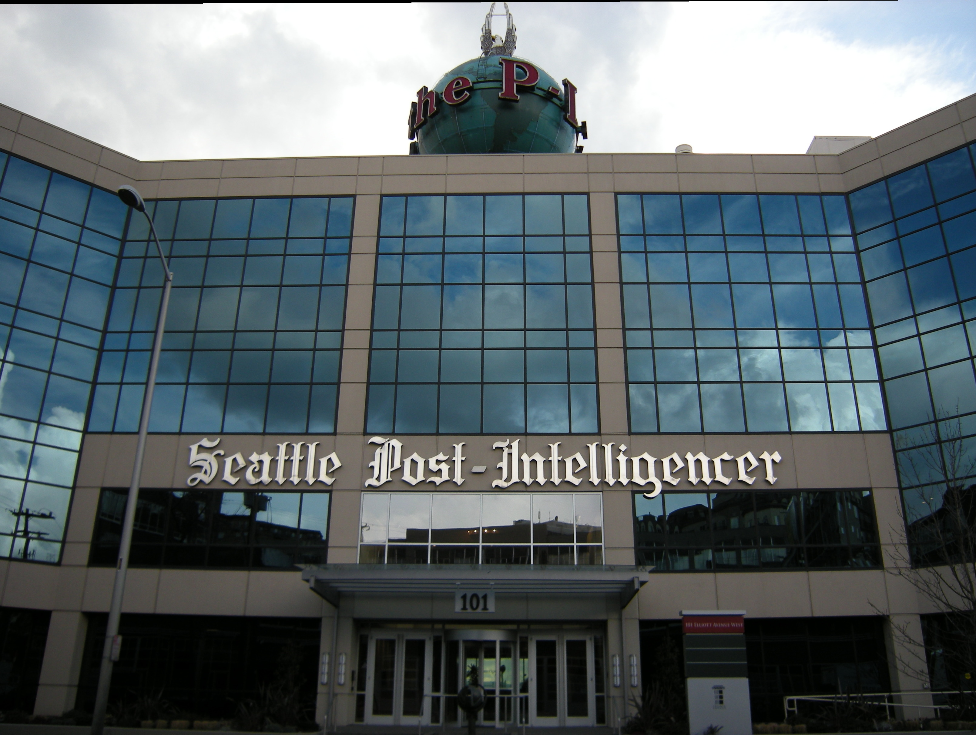 Seattle Post-Intelligencer Building, 101 Elliott Ave W, Seattle, Washington.